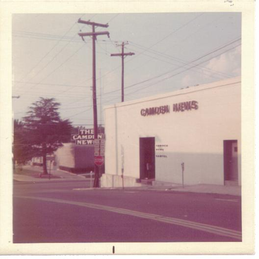 Camden News building, Camden, Arkansas, 1973